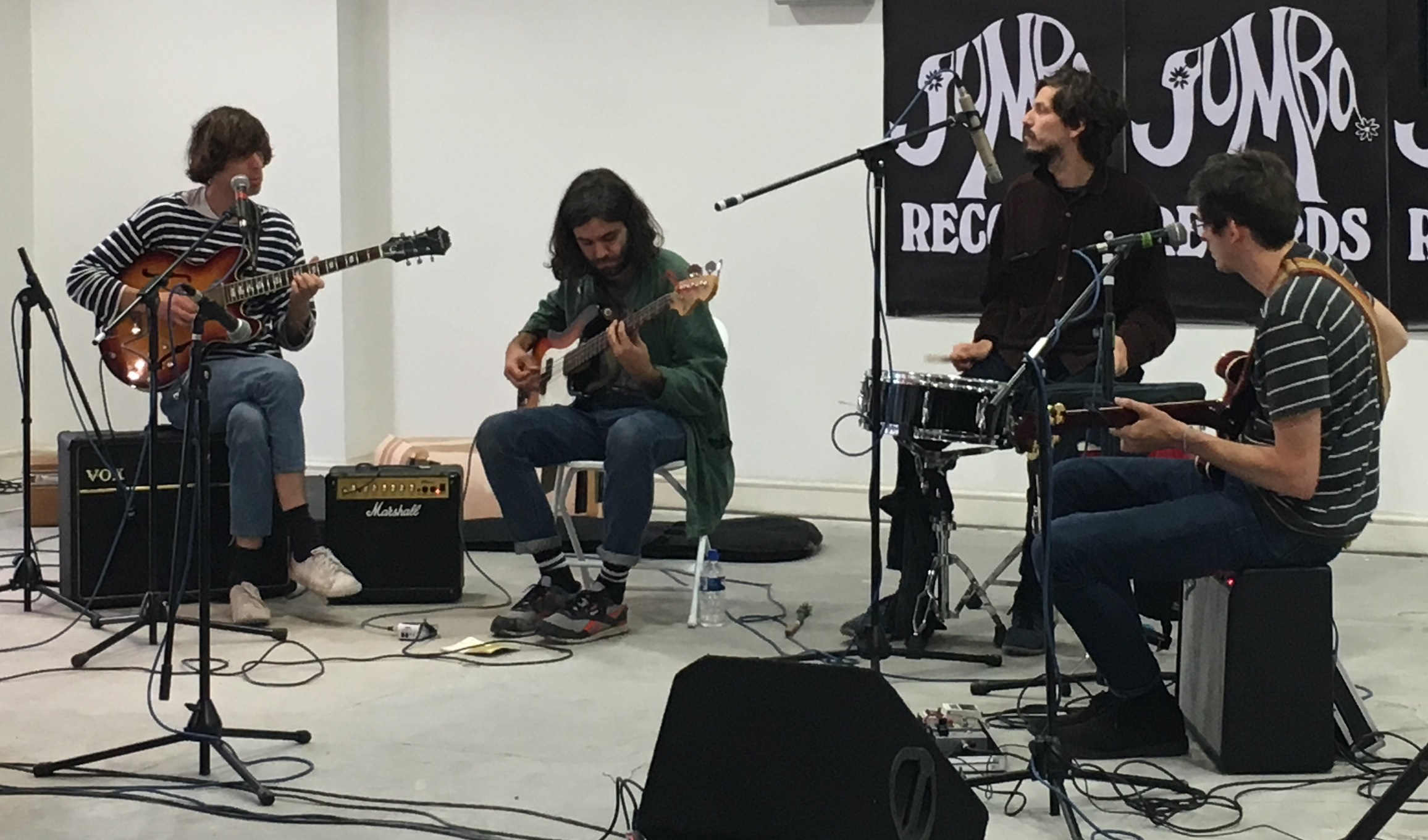 Cropped version